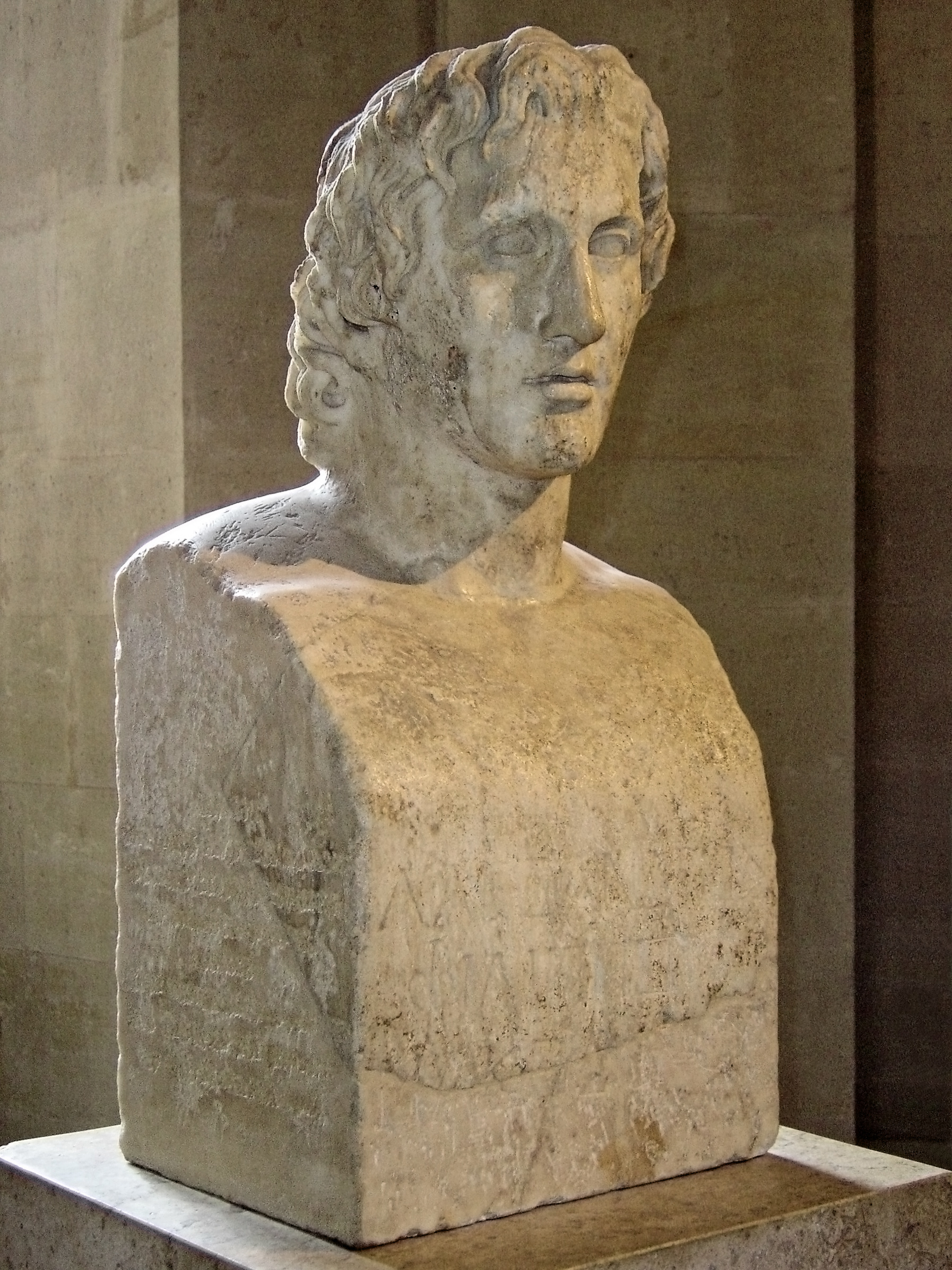 Hermes-type bust (pillar with the top as a sculpted head) of Alexander the Great called Hermes Azara. Bears the inscription: "Alexander [the Great], son of Philip, [king of] Macedonia." Copy of the Imperial Roman Era (1st or 2nd century CE) of a bronze sculpture made by Lysippos. Found in Tivoli, East of Rome, Italy. Pentelic marble, region of Athens.